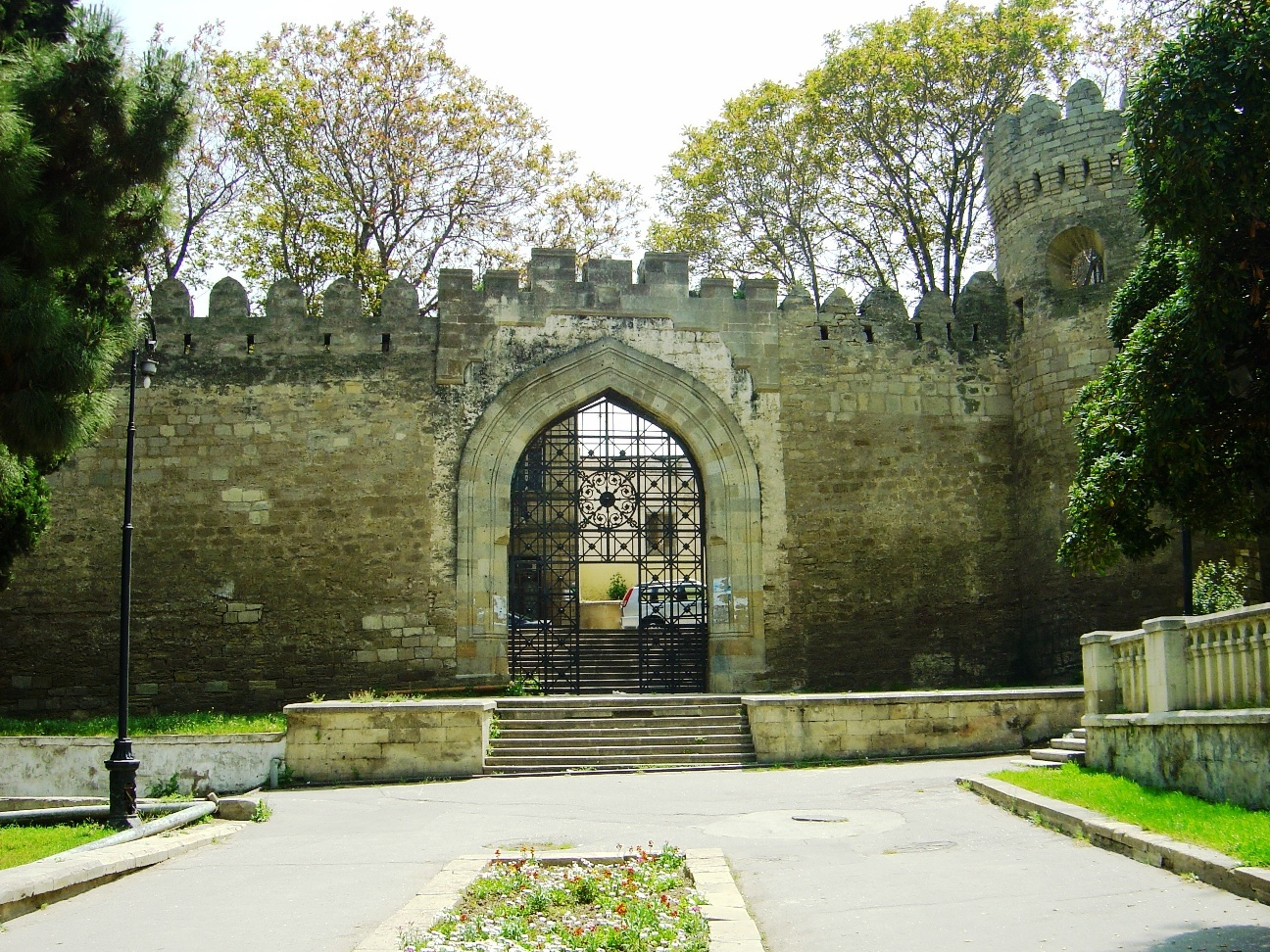 Fortress gate in Baku